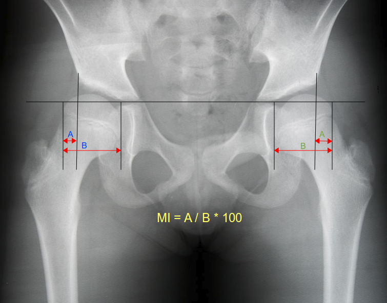 Measurement of Reimer's migration index, which can be used to indicate hip dislocation.